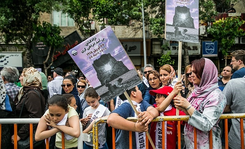 Armenian Genocide Remembrance Day in Saint Sarkis Cathedral, Tehran